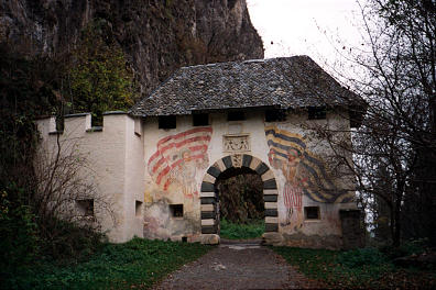 One of the fourteen Hochosterwitz Castle gates, photo by Asterion